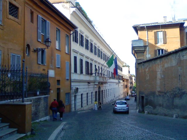 Via Garibaldi, in Rome. The Caserma Podgora on the left has been used by the carabinieri since 1952.